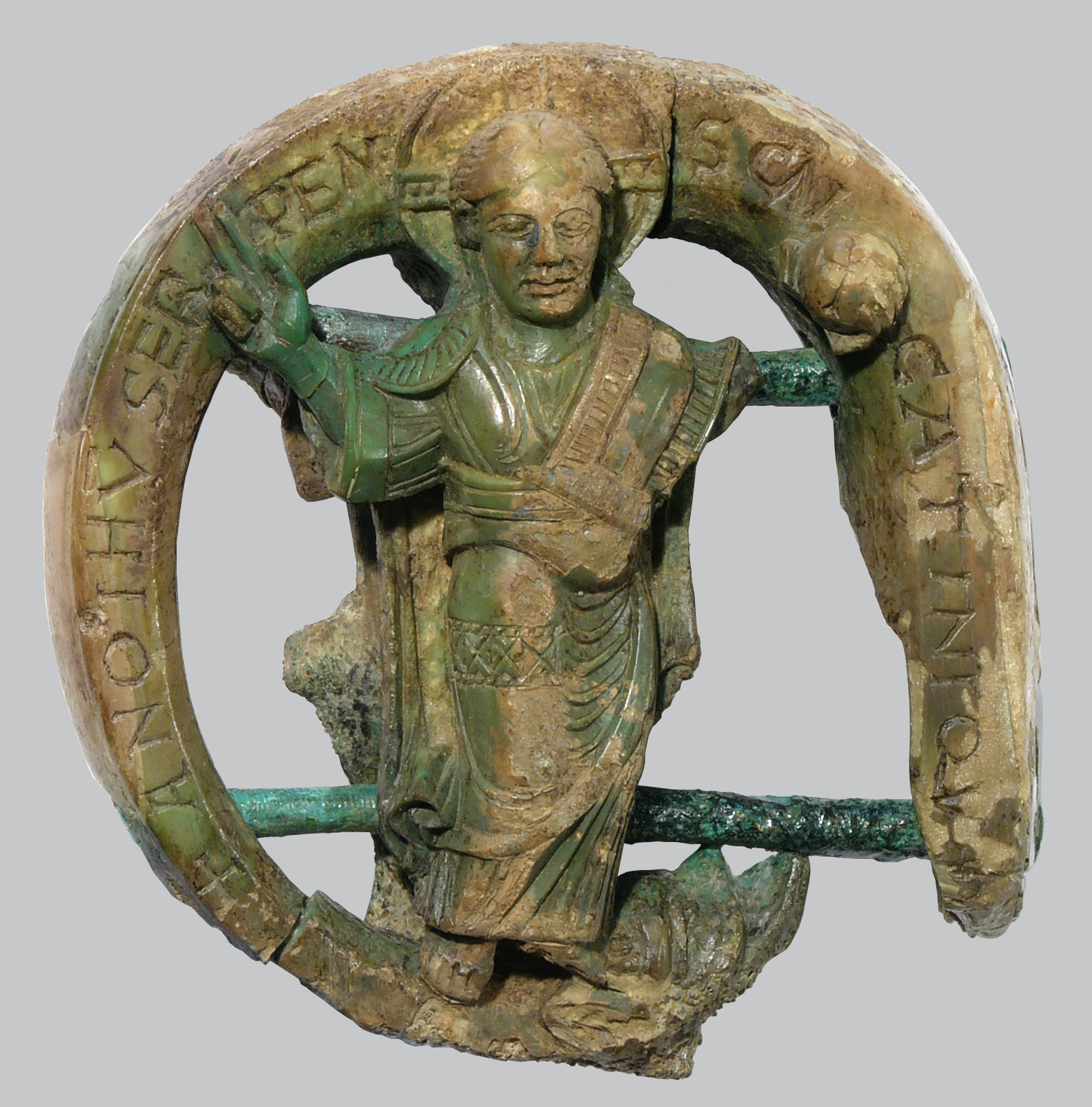 head of Romanesque bishop's crozier from the museum of Ename